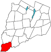 Map of Otsego County with the Town of Unadilla, New York in red